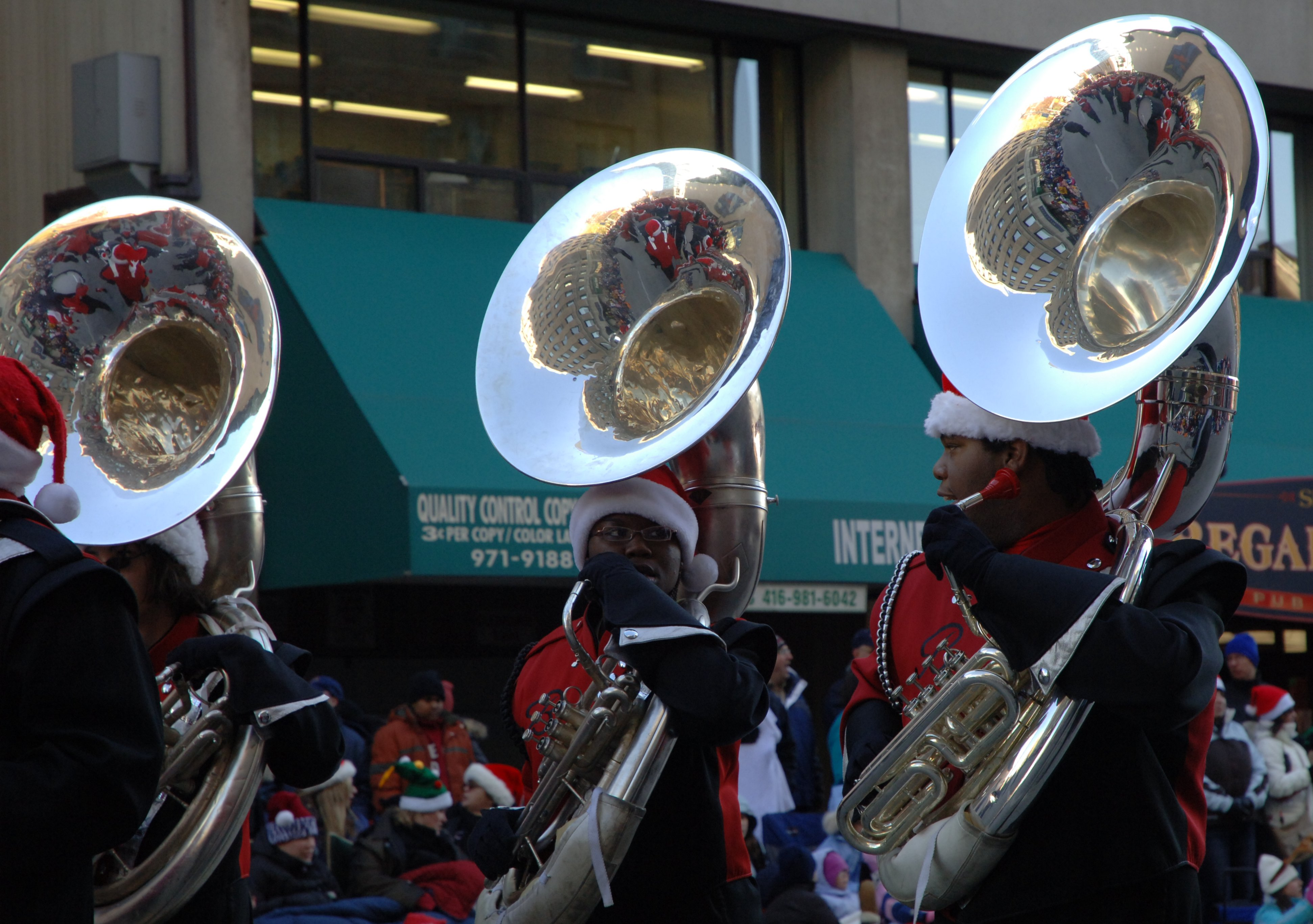 Picture of Sousaphones (wearable tubas) in the Santa Claus parade